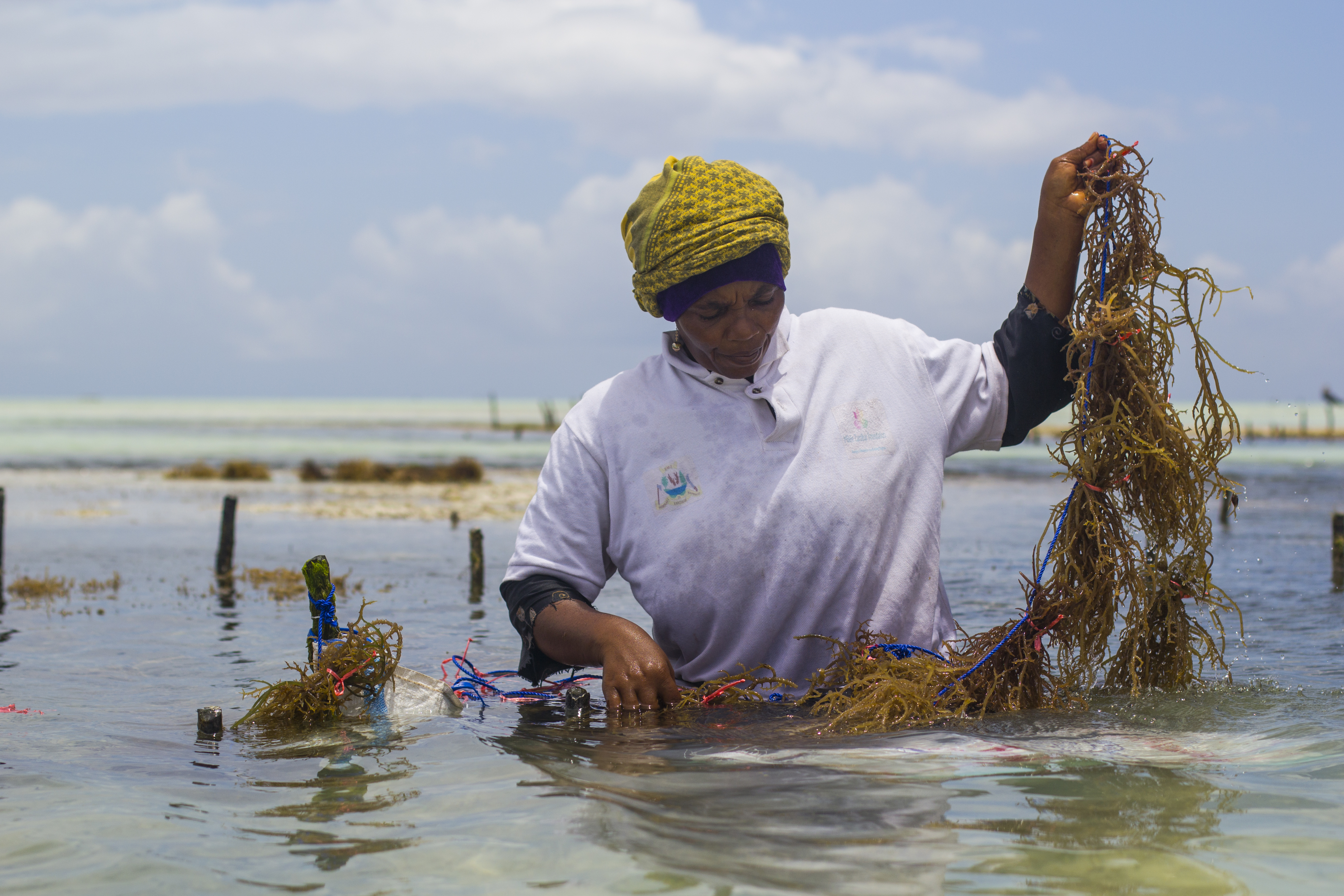 The farmers have a lot of problems due to climate change. Two decades ago, 450 seaweed farmers roamed Paje. Now, only about 150 farmers remain. This is an image of "African people at work" from Tanzania